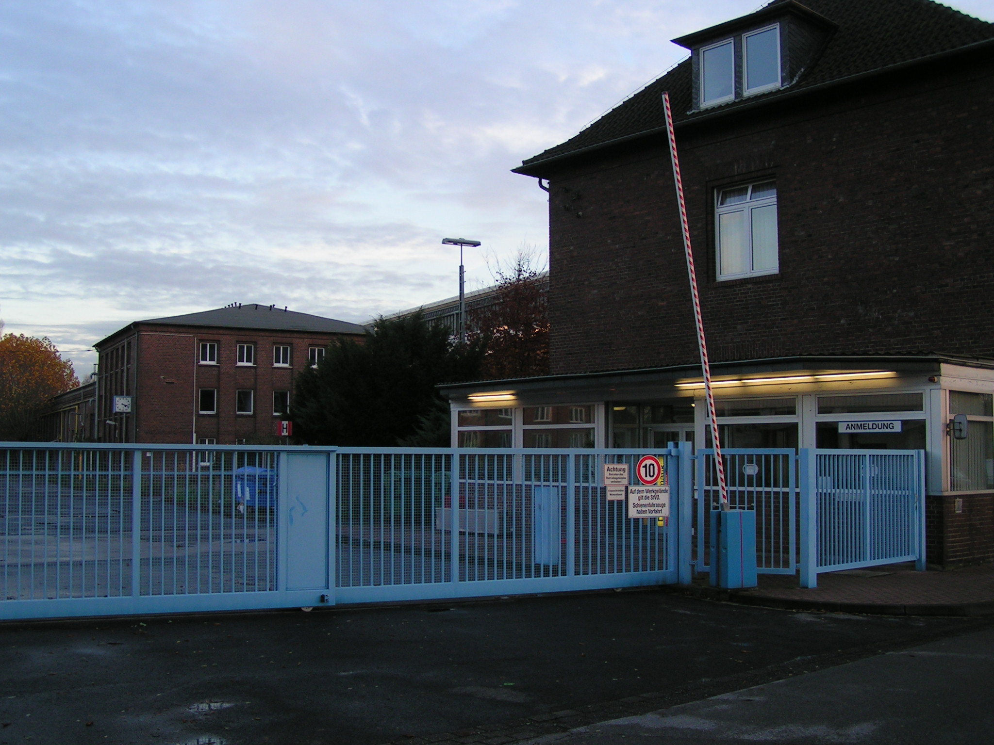 Entrance of the former main railway workshop in Opladen (now part of Leverkusen), Germany